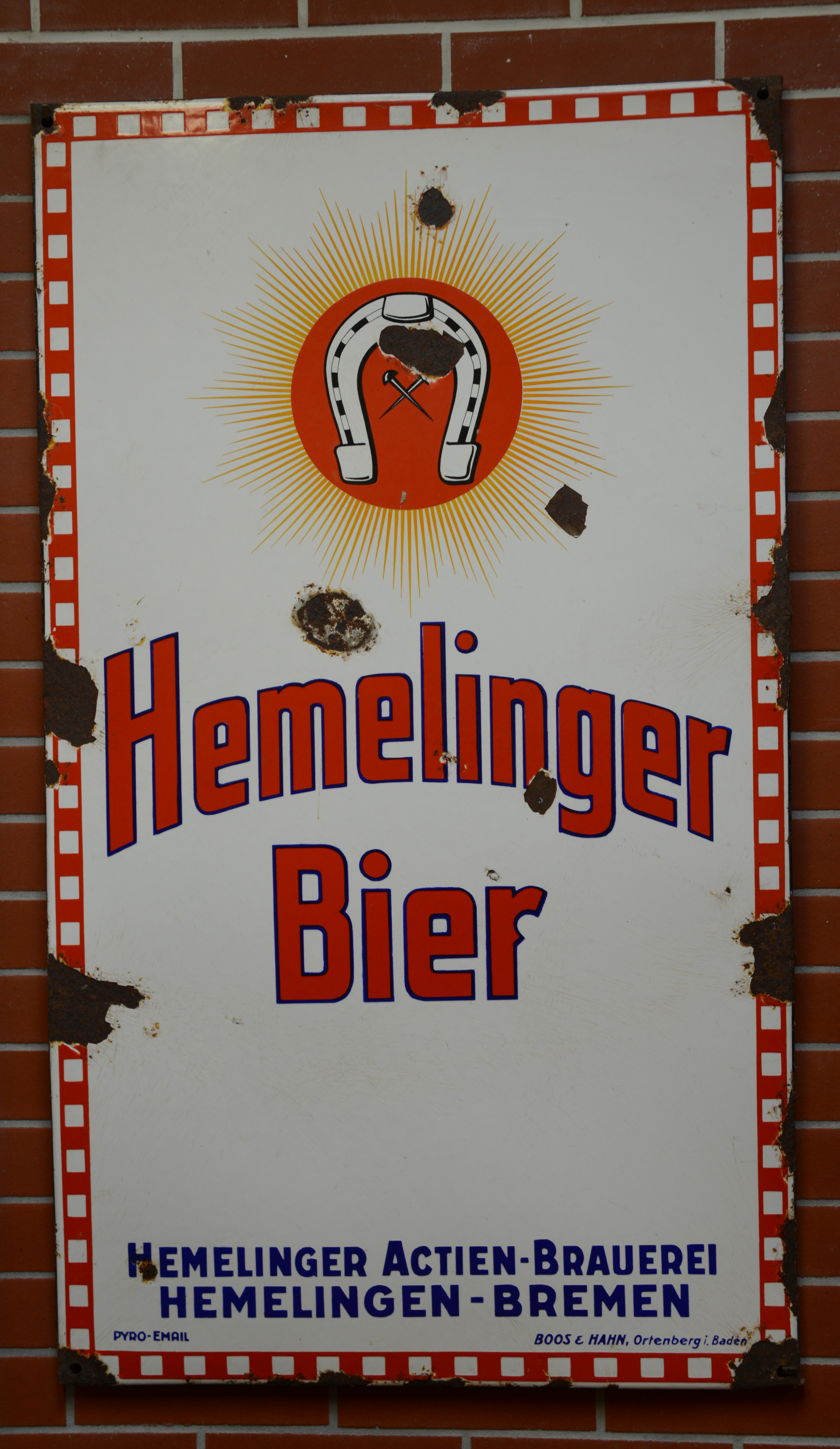 Billboard Hemelinger Beer Bremen